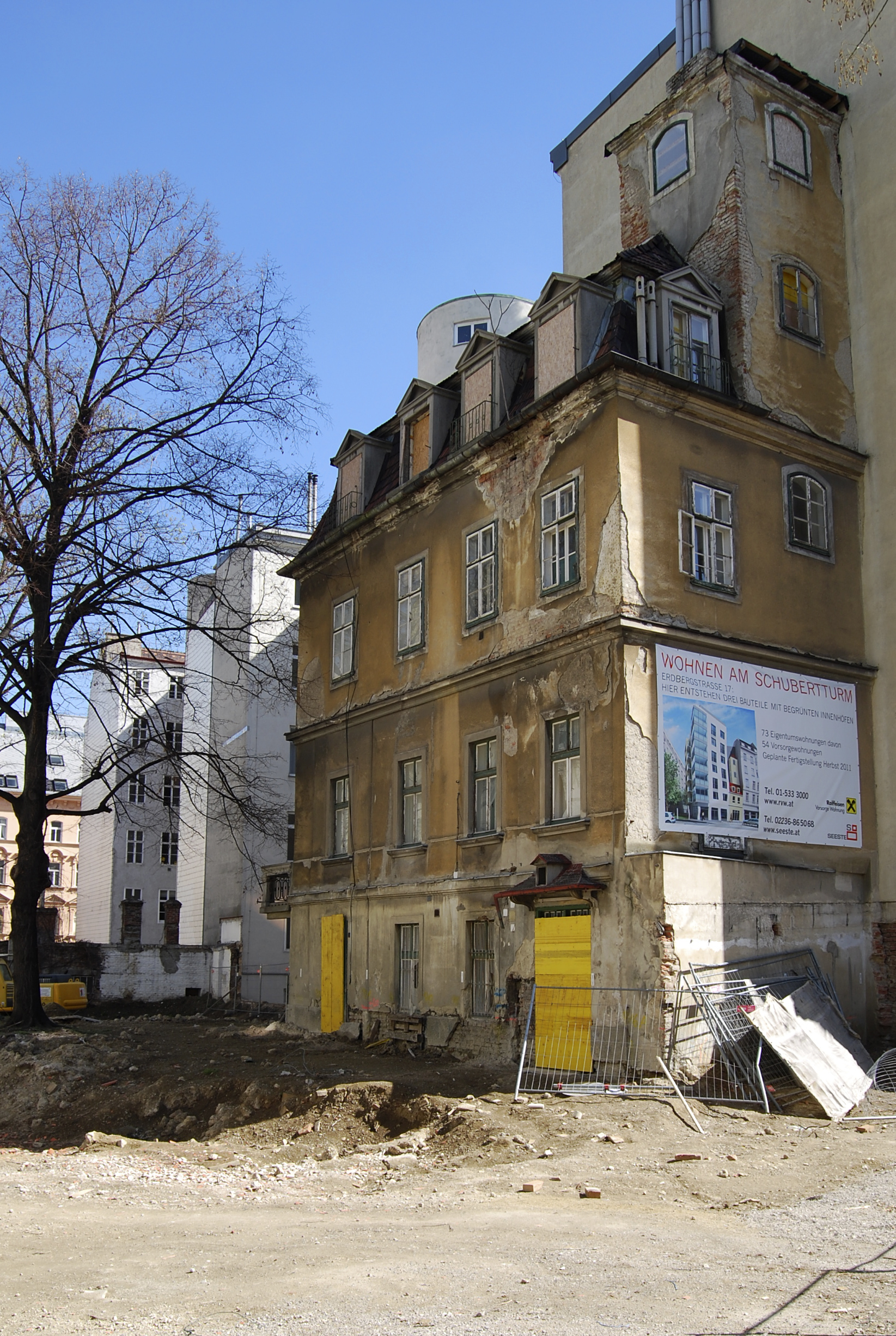 Wohnhaus mit sog. Schubertturm, vor dem Umbau